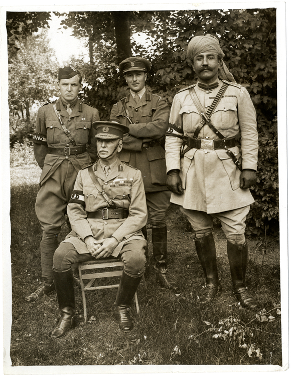 Gen. Sir James Willcocks and his personal staff in the garden at his headquarters [Merville, France].